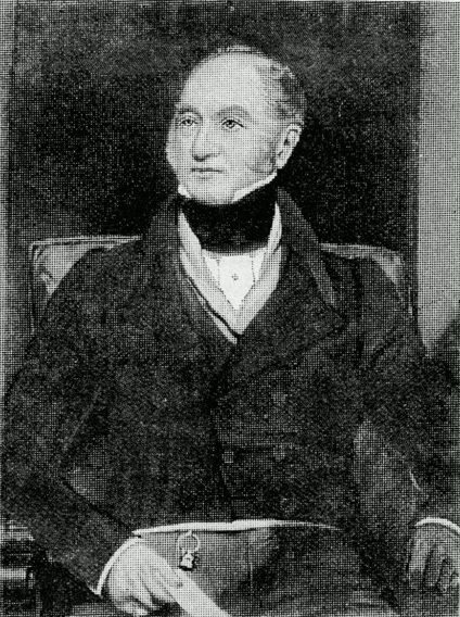 Engraving of John Hardy MP, (1773-1855), of Dunstall Hall, Staffordshire, England. He was MP for Bradford 1832-1837, and 1841-1847. He was a solicitor, and a partner in the Low Moor ironworks, Bradford, West Yorkshire, having inherited his share from his father John Hardy (1744-1806). His wife was Elizabeth Gathorne, and he was father of Sir John Hardy, Charles Hardy, Gathorne Gathorne-Hardy who became Lord Cranbrook, and nine daughters.